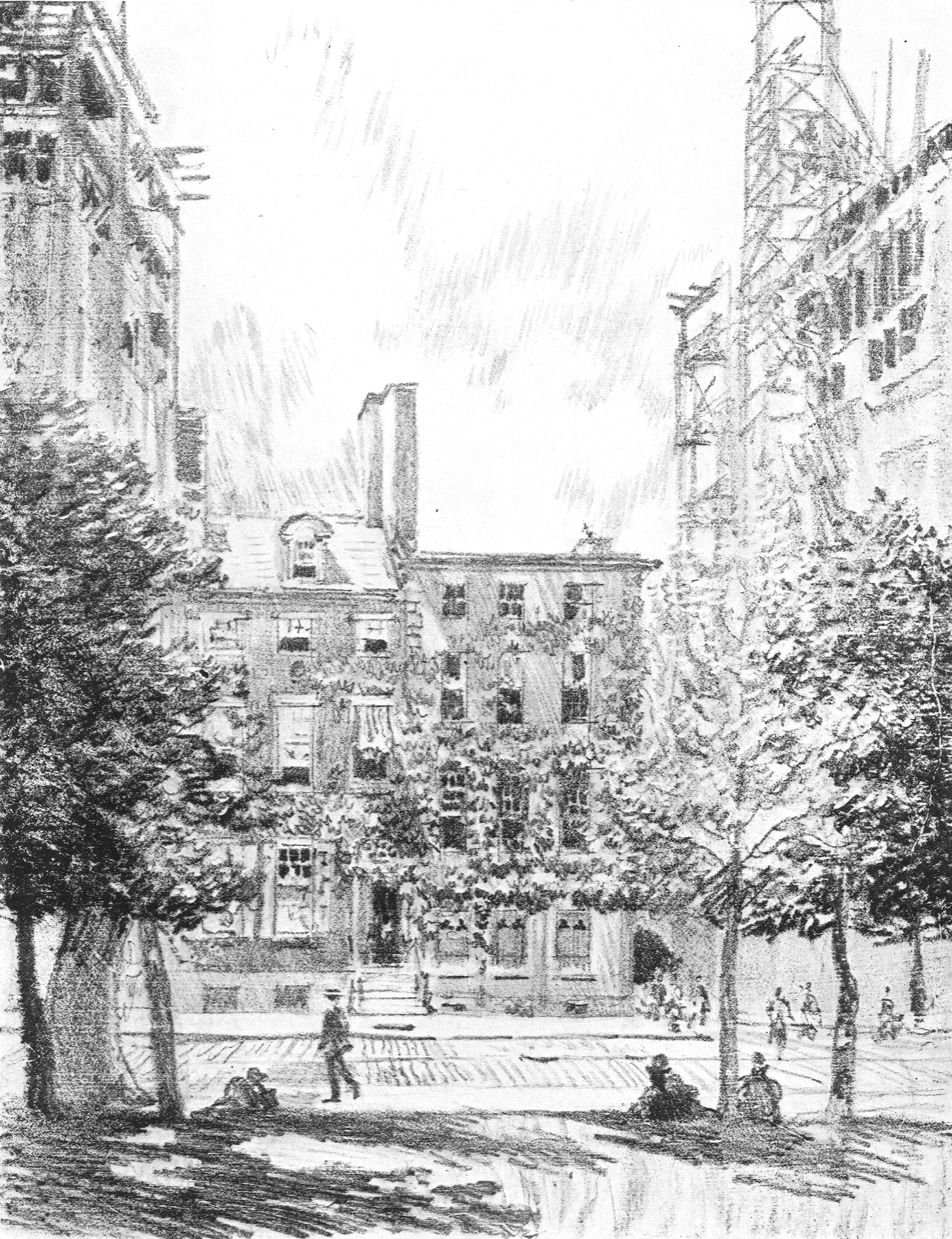 Image of p. 333 from Our Philadelphia (1914) by Elizabeth Robins Pennell and Joseph Pennell. Scanned at 600dpi from an original copy. Caption: "DR. FURNESS'S HOUSE, WEST WASHINGTON SQUARE JUST BEFORE IT WAS PULLED DOWN"